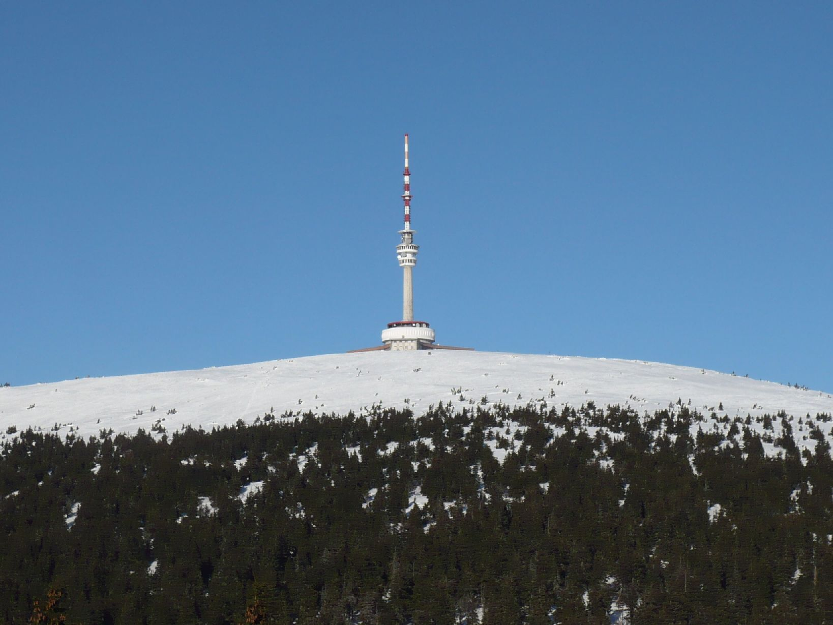 Praded observation and transmitter tower